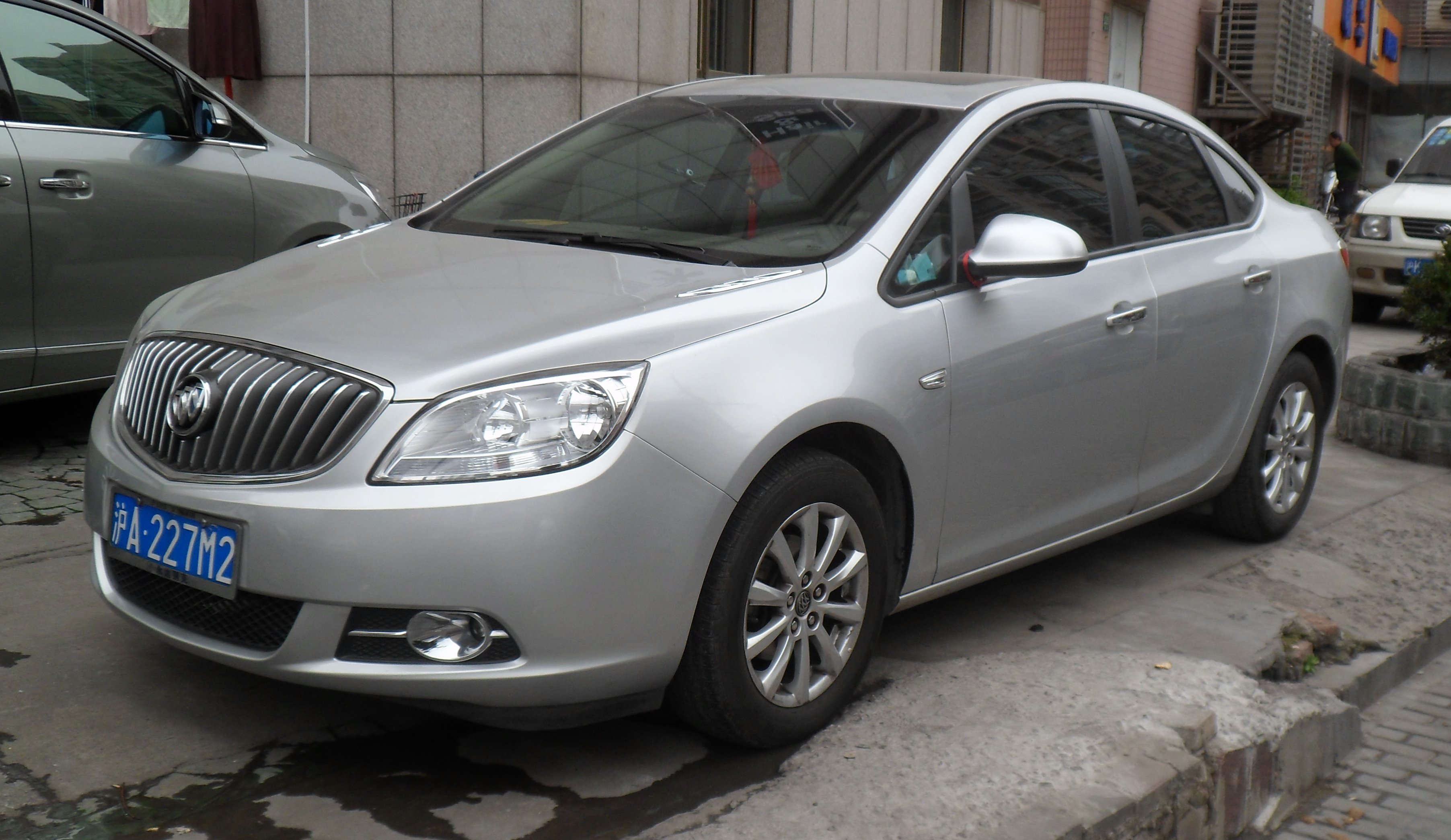 Buick Excelle GT photographed in Shanghai, China.